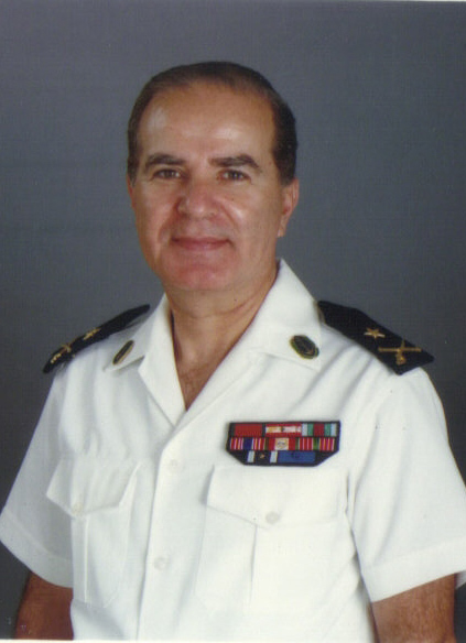 Samir El-Khadem, Former Lebanese Commander, 1996 - 1999